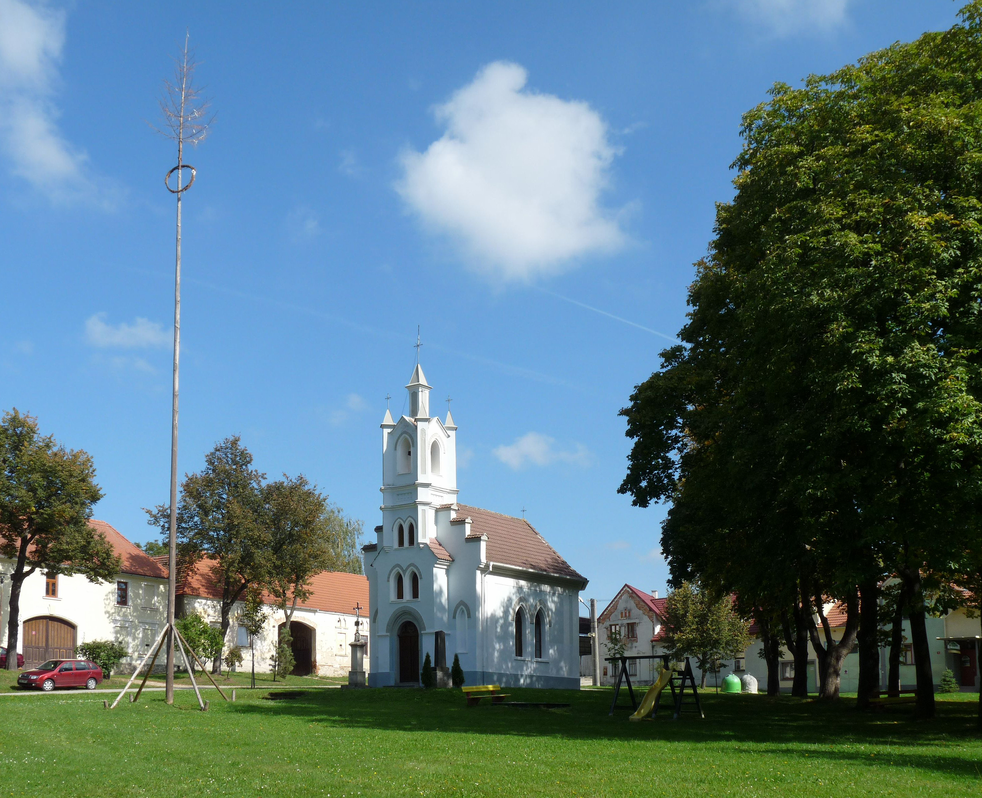 Chapel and a maypole in the village of Velice, České Budějovice District, South Bohemian Region, Czech Republic.